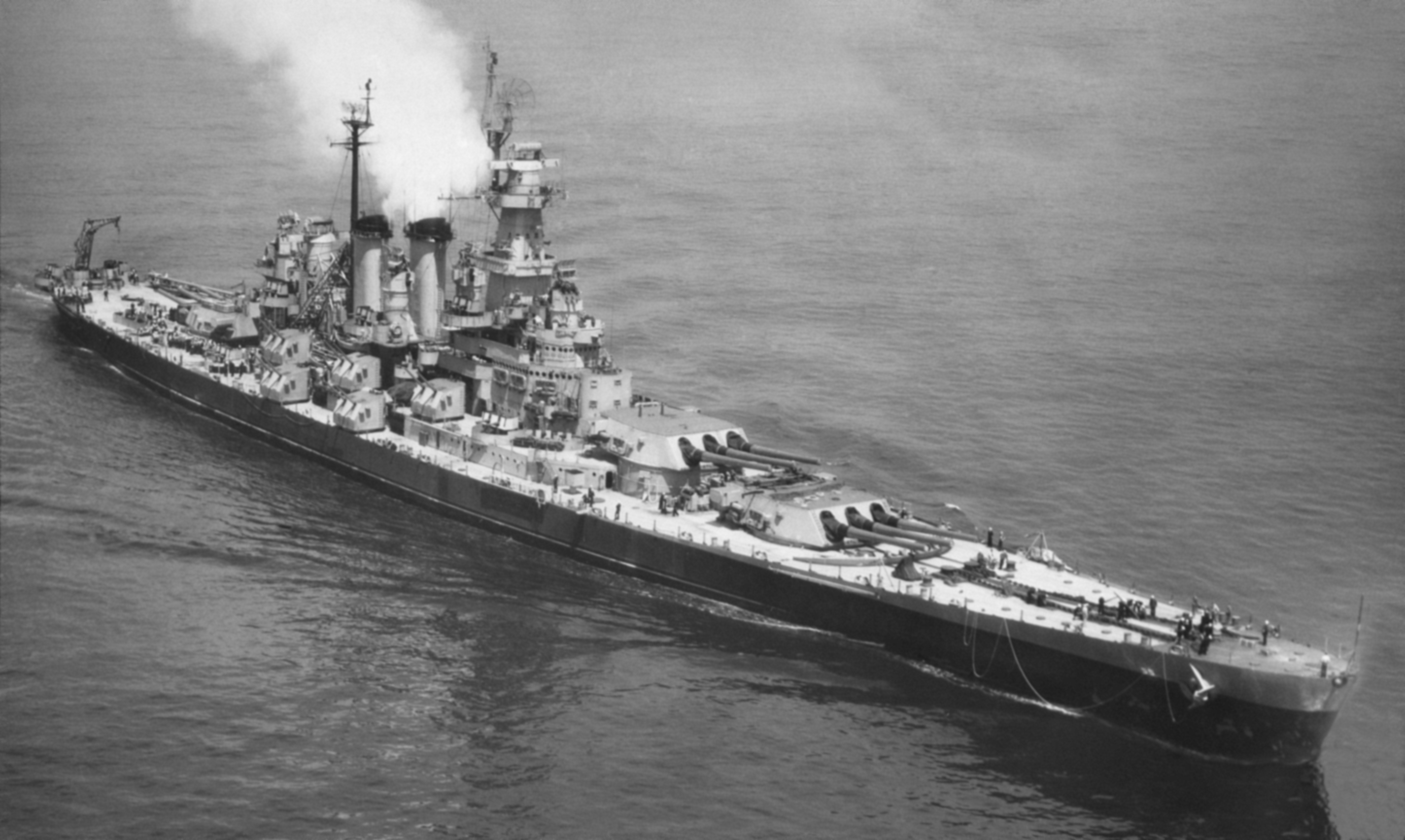 North Carolina (BB-55) photographed from an altitude of 300 feet. Image developed by NAS NYNY Photographic Laboratory.